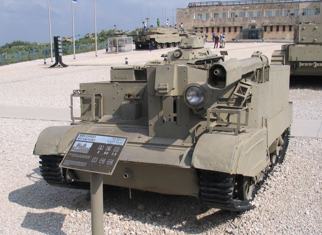 Description: Flamethrower-equipped variant of the British Universal Carrier in Yad la-Shiryon Museum, Israel. 2005. Source: Photo by me, User:Bukvoed